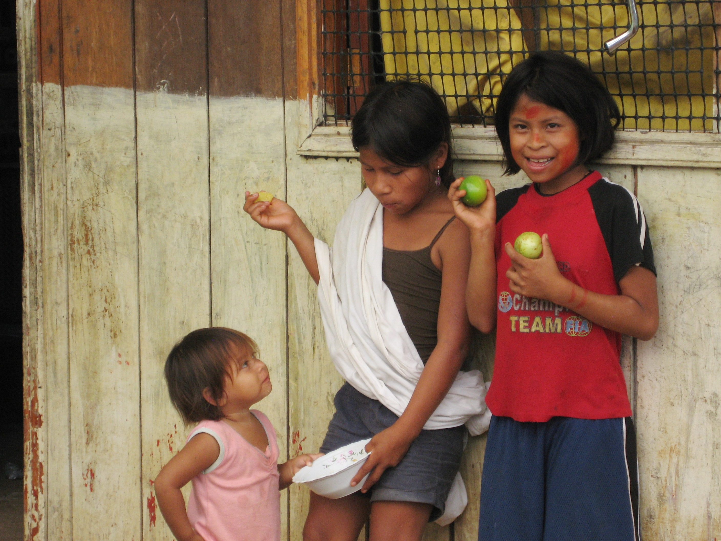 Huaorani (Waorani) children in Ecuador, May 2008.